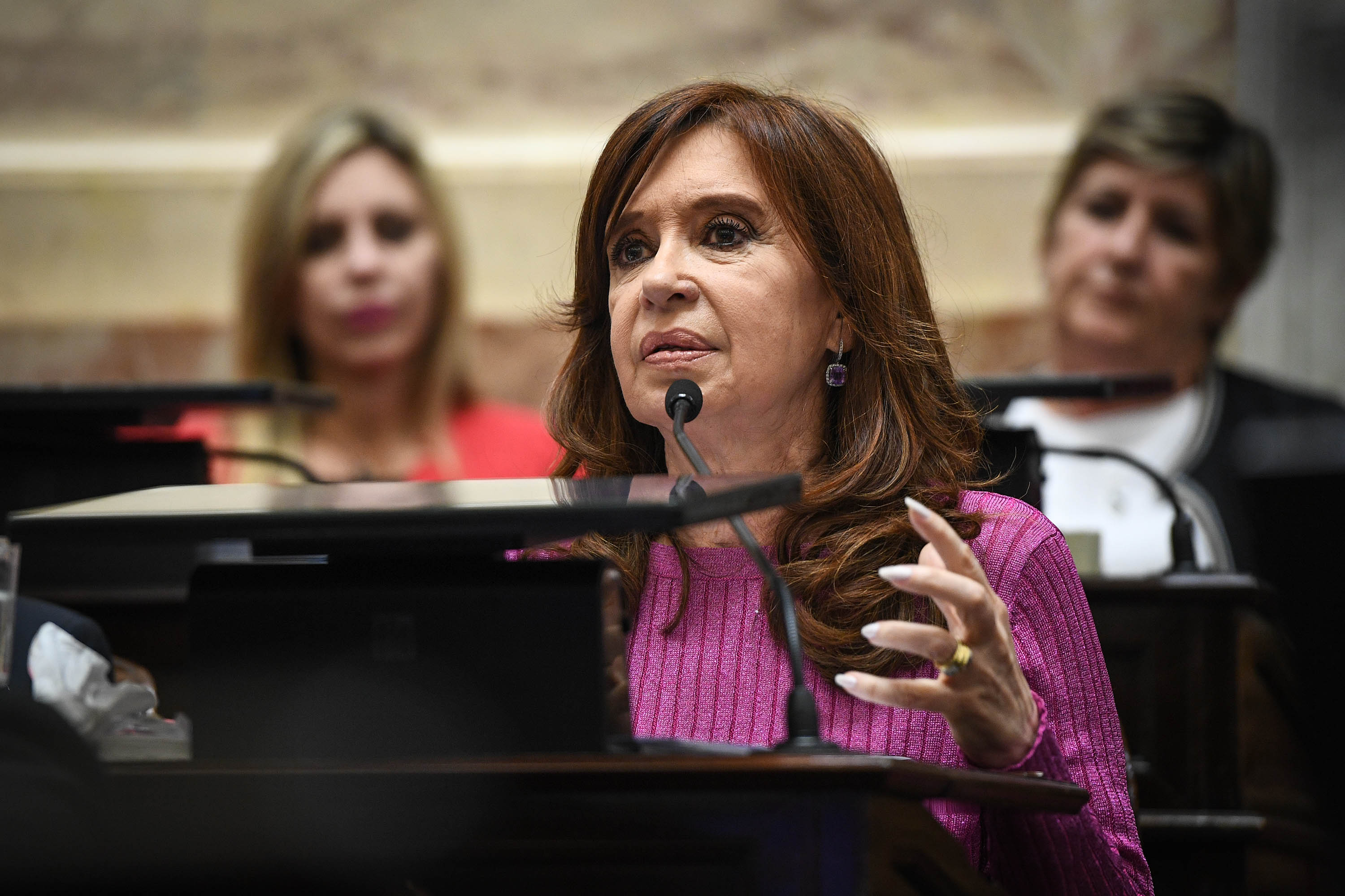 Sesión en el recinto del Senado de la Nación donde se debate el proyecto que declara la emergencia tarifaria, en Buenos Aires, Argentina el 30 de Mayo de 2018.